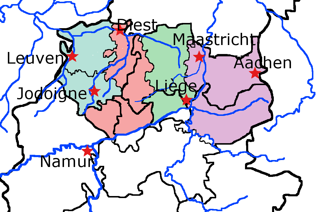 Map showing proposal by Karl Verhelst for the 4 counties of Hesbaye (Haspengauw) mentioned in the 870 Treaty of Meerssen